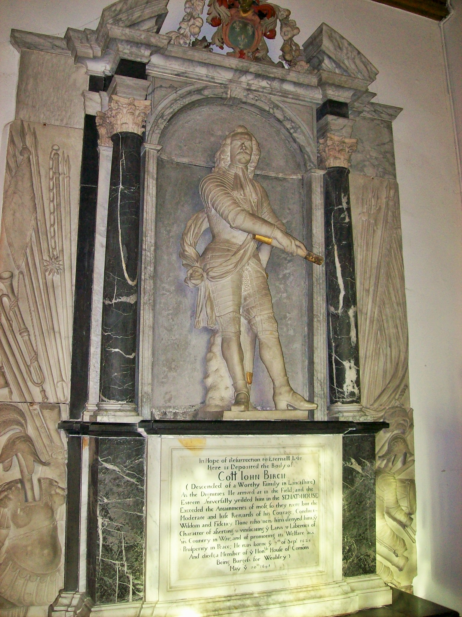 Memorial to Col John Birch, Weobley